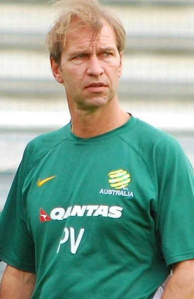 Pim Verbeek at Socceroos training.